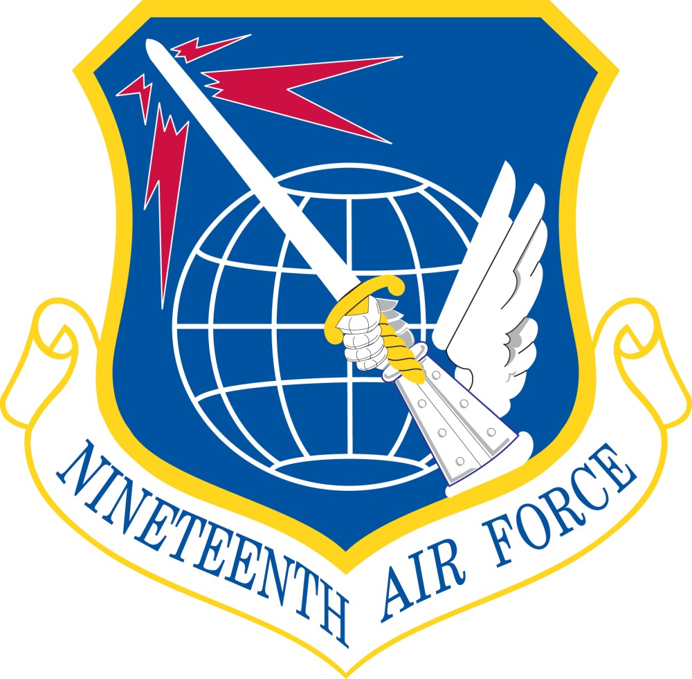 Emblem of the 19th Air Force of Air Education and Training Command of the United States Air Force